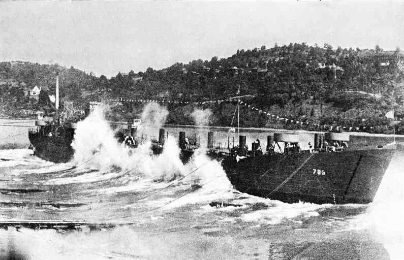 LST-786 launching, 22 July 1944, at Dravo Corp., Neville Island, Pittsburgh, PA. Official US Navy photo taken from